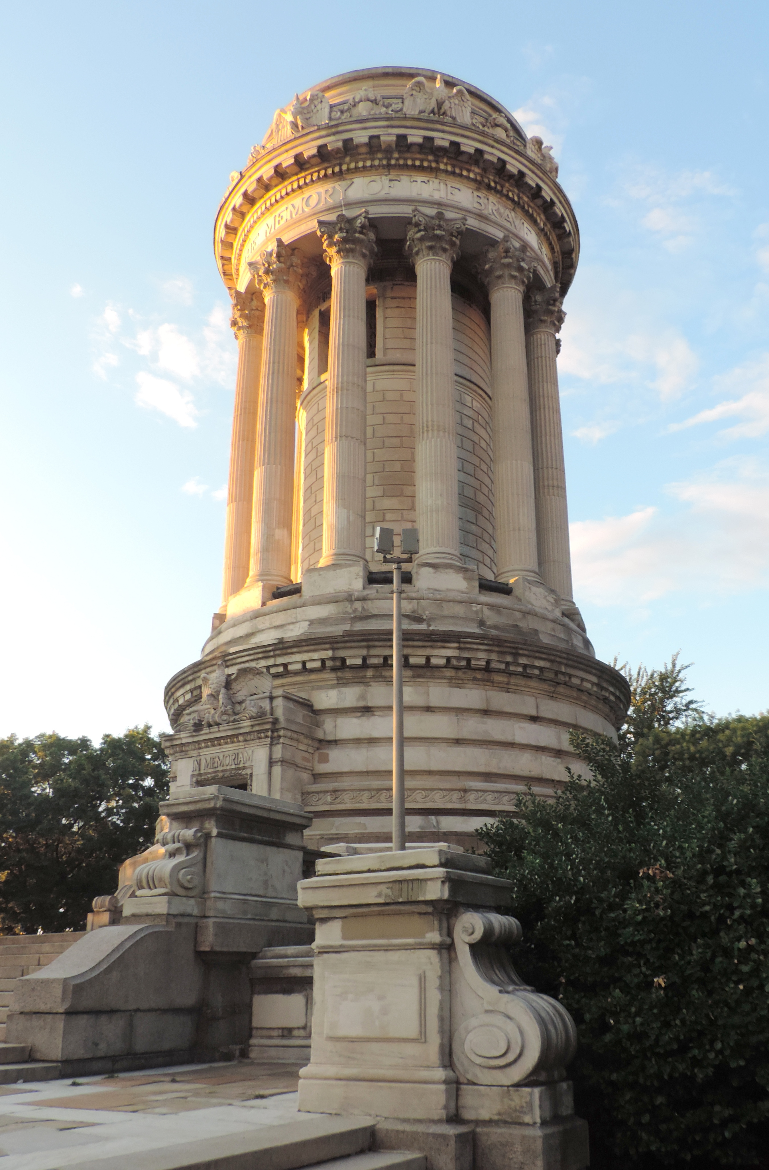 Looking north and up near dusk of a mostly sunny day.